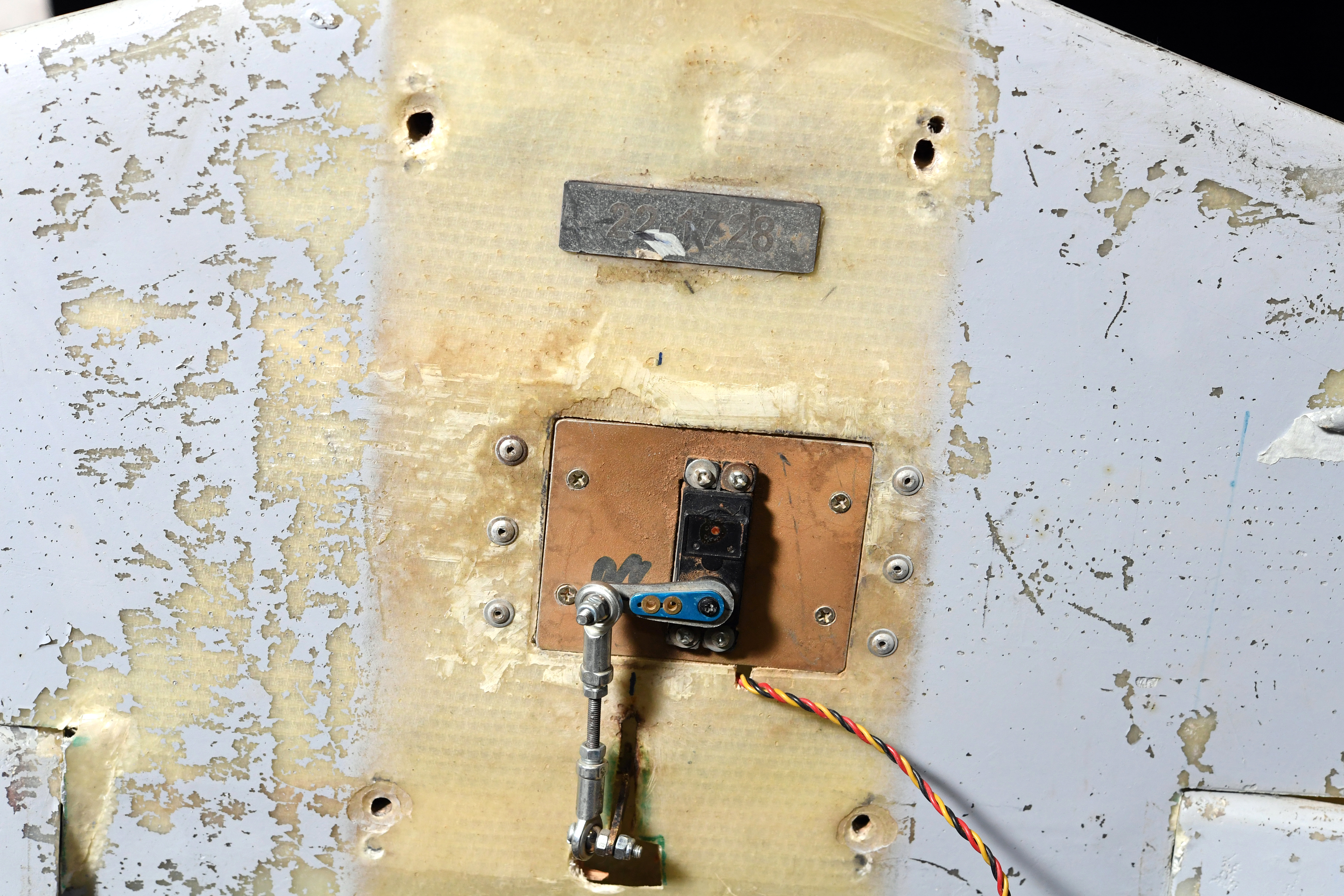 A serial number links an Iranian state-owned and operated company with an unmanned aerial attack vehicle on display at Joint Base Anacostia-Boling in Washington, D.C. Jan. 24, 2018. The attack UAV component is part of a multi-national collection of evidence proving Iranian weapons proliferation in violation of United Nations resolutions 2216 and 2231. (DoD photo by EJ Hersom)